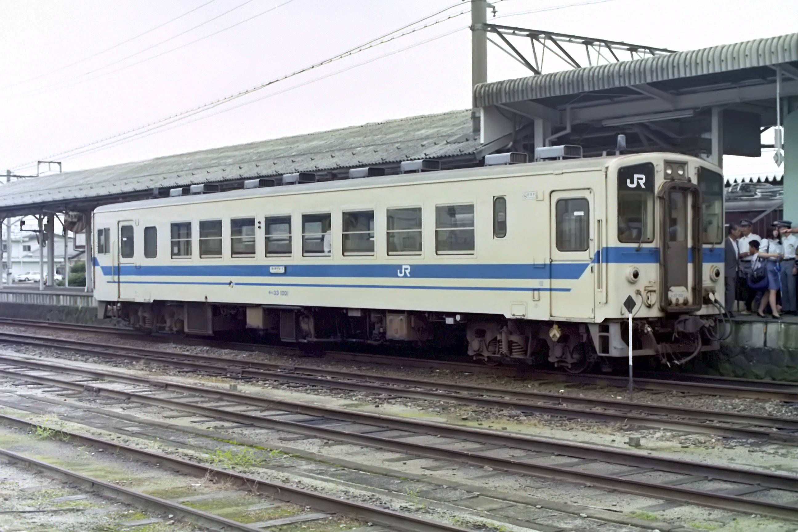 JR West KiHa 33 DMU car KiHa 33-1001 in original livery at Yonago Station in Tottori Prefecture, Japan